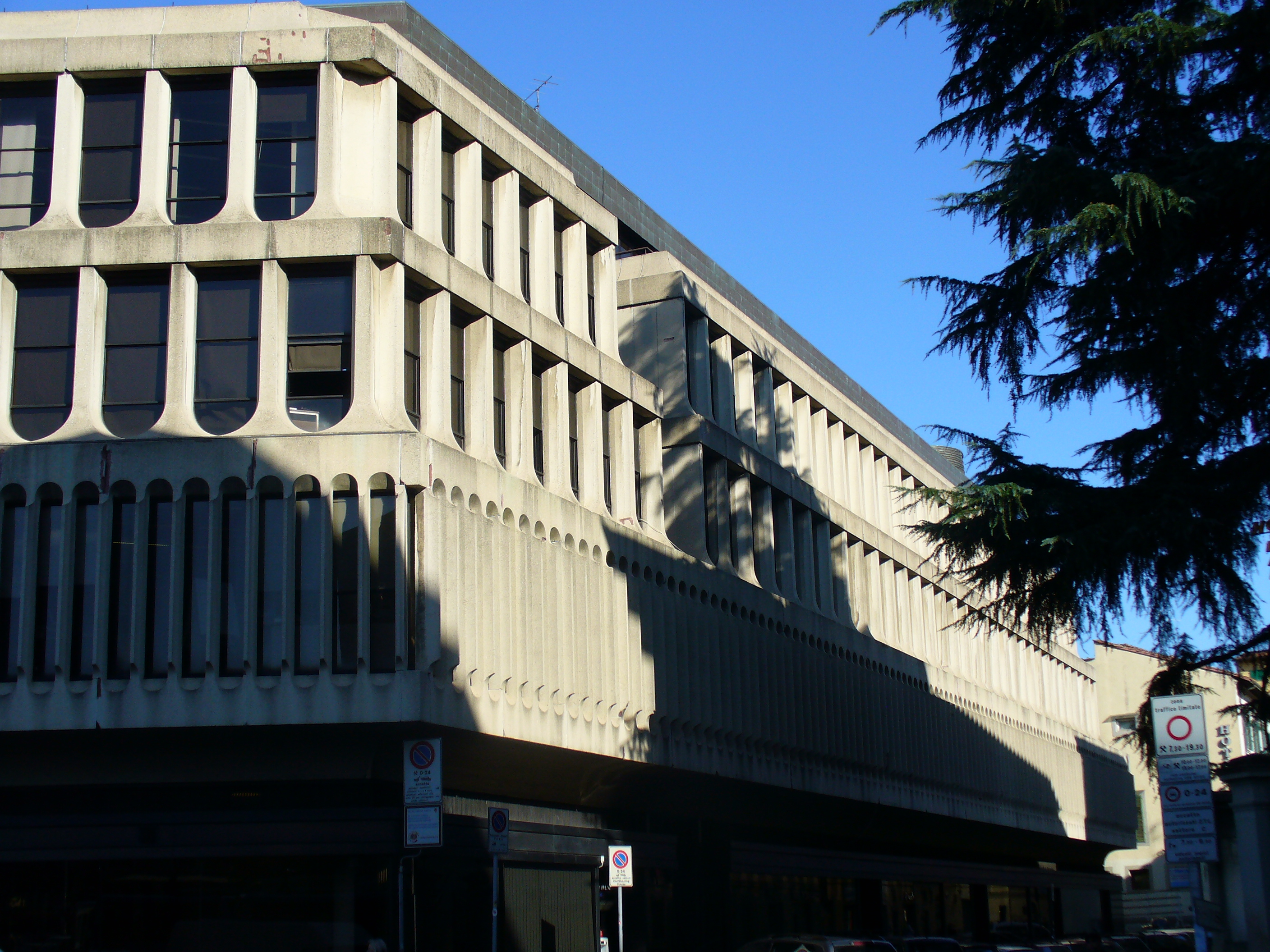 Palazzo degli Affari (Florence)